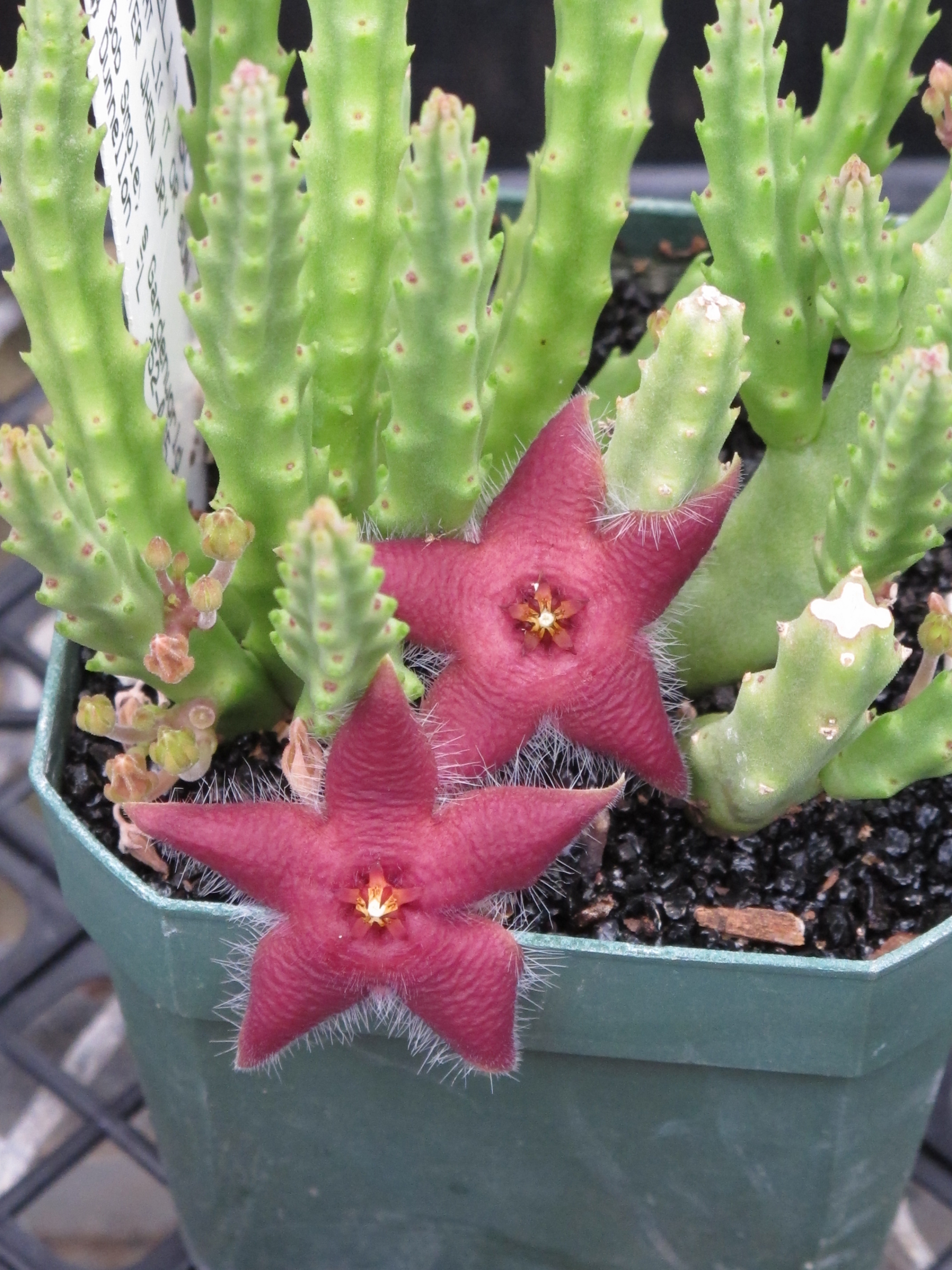 Stapelia paniculata subsp. scitula, Biological Sciences greenhouse, Florida International University, Miami, Florida, USA.